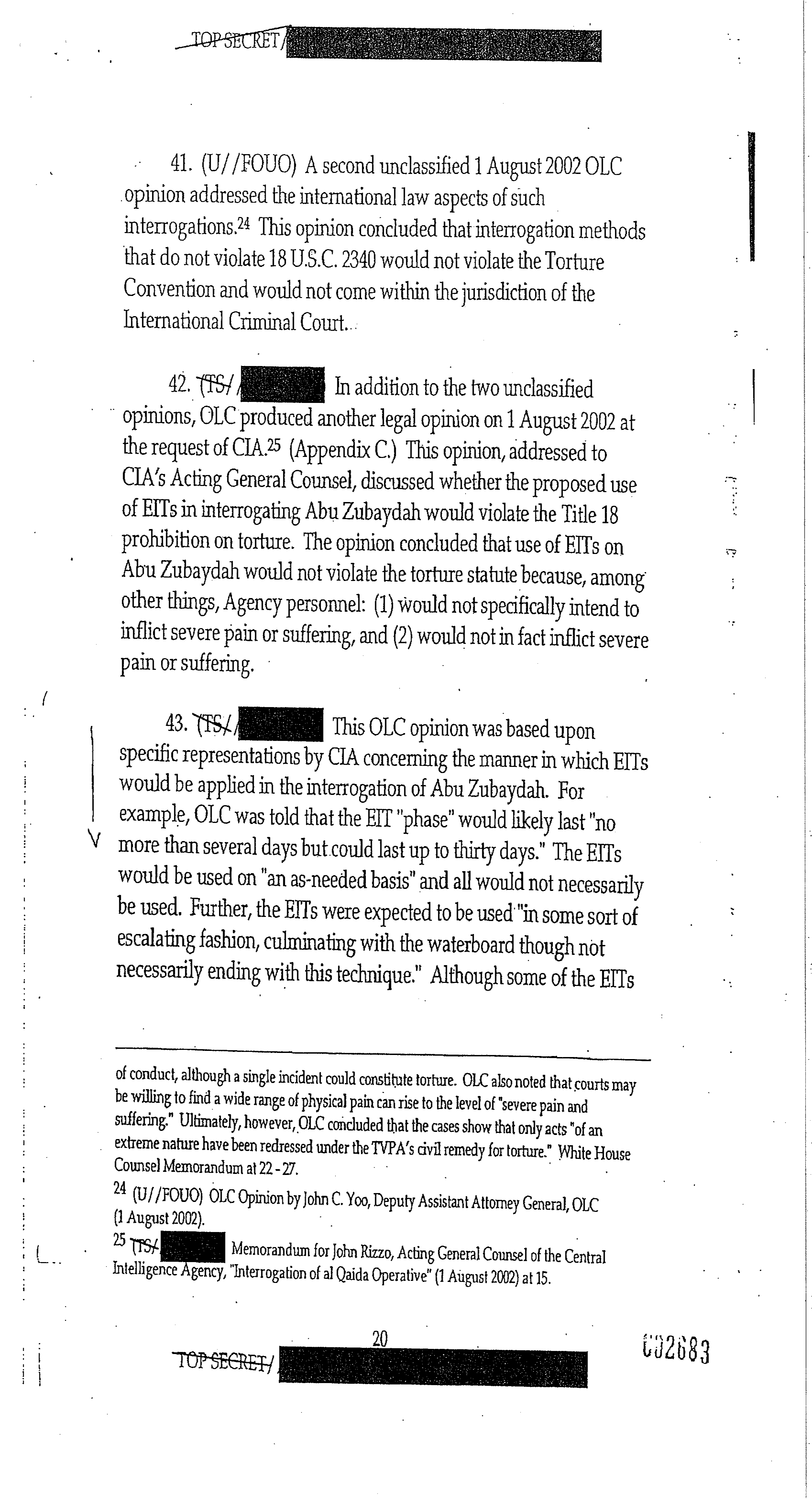 From ACLU FOIA documents at (American Civil Liberties Union, Freedom of Information Act Requests, to the Central Intelligence Agency Office of Inspector General) CIA Office of Inspector General report excerpts U / FOUO = Unclassified / For Official Use Only TS = Top Secret